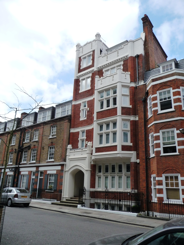 90 Allitsen Road, St John's Wood